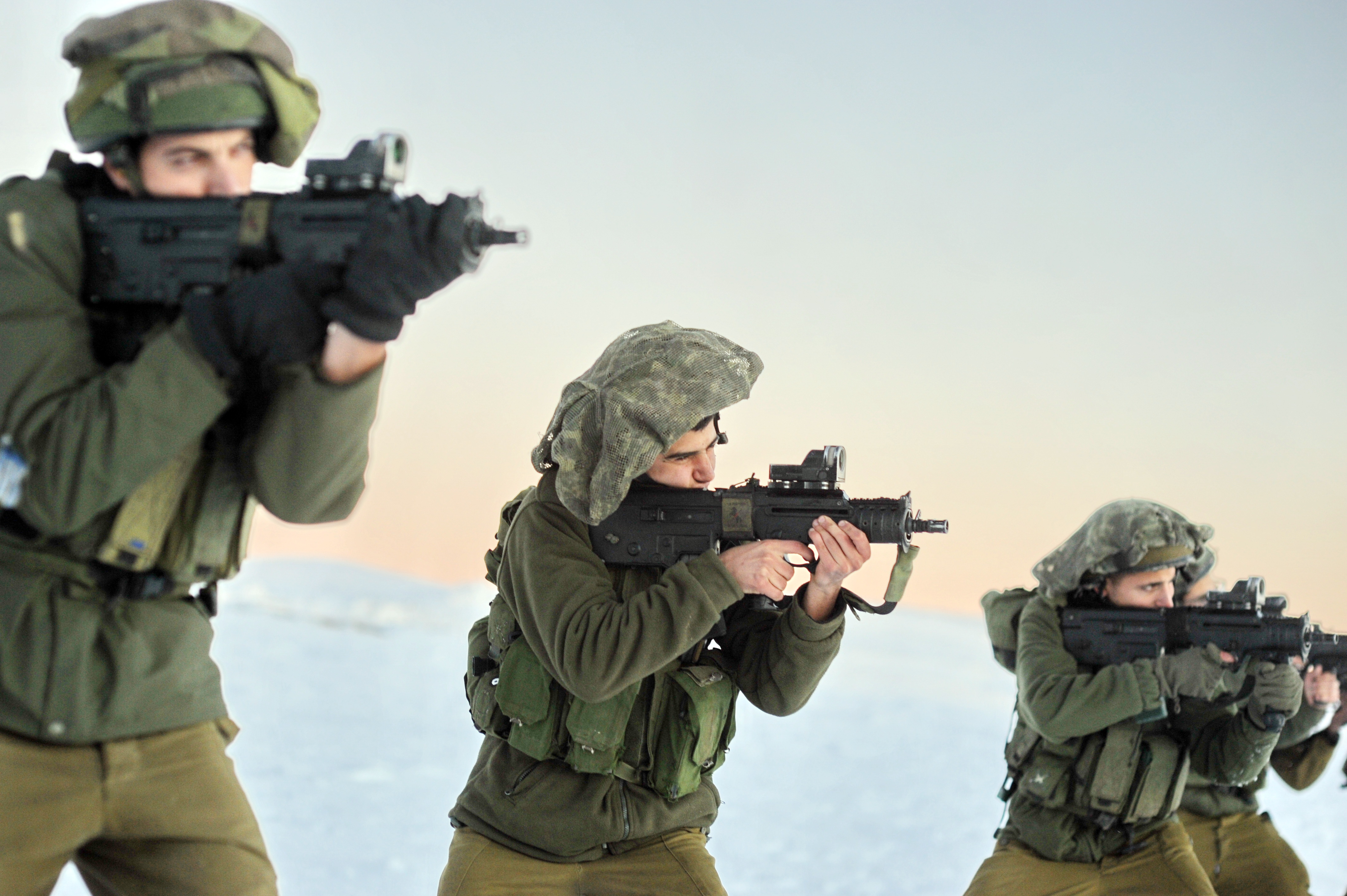 January 14, 2013 Soldiers of the Golani Brigade conduct an exercise in the snowy Mount Hermon. As the brigade of the northern command, Golani is trained in the most extreme conditions. Photo by Shay Wagner, IDF Spokesperson's Unit The Israel Defense Forces Facebook • blog • Twitter